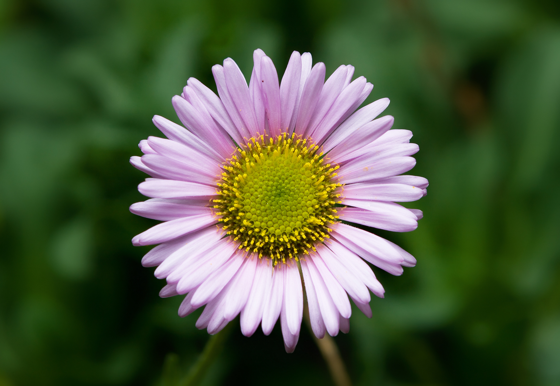 Erigeron Glaucus, Austin's Ferry, Tasmania, Australia